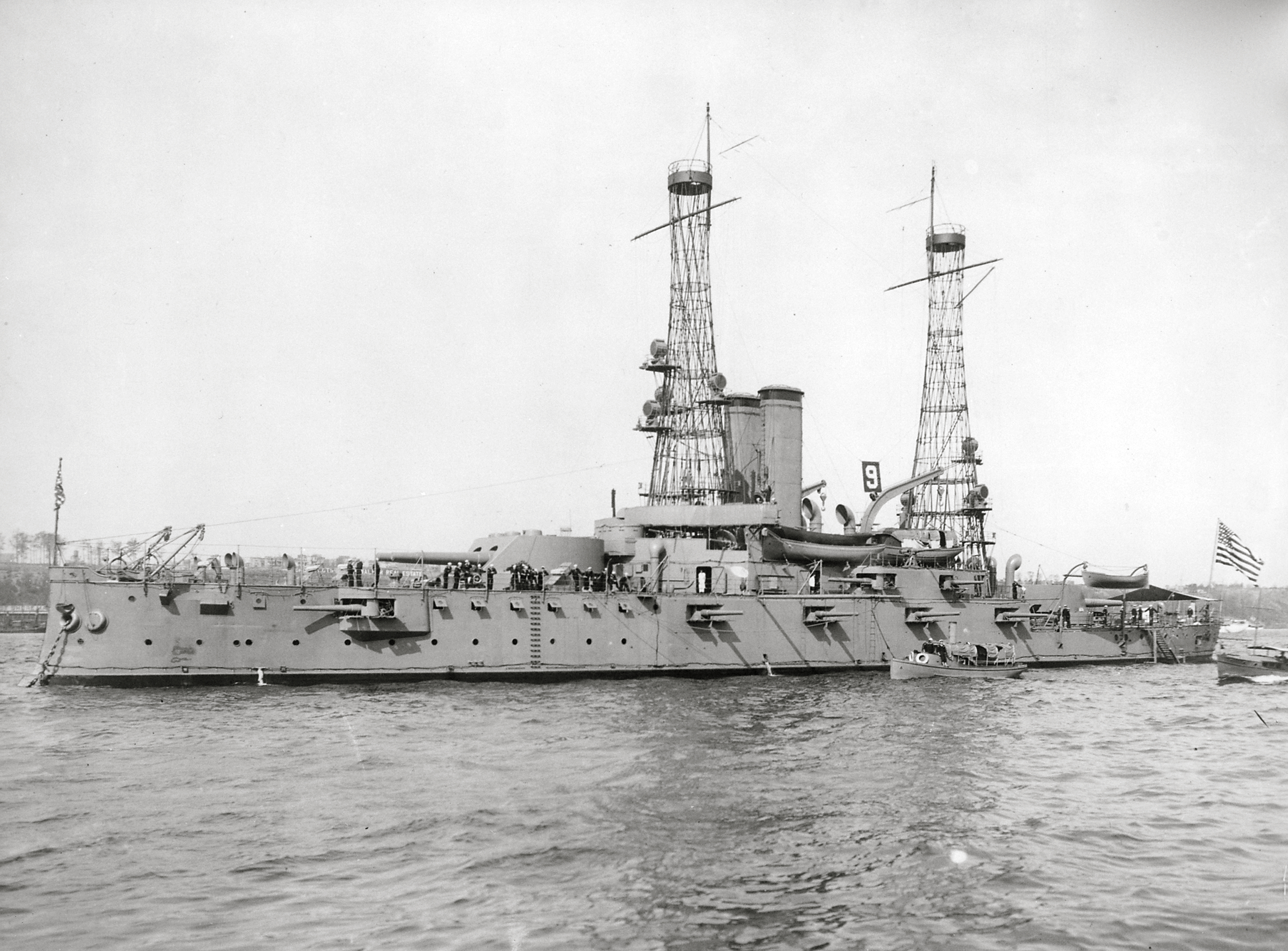 The Battleship USS Alabama (BB-8) off New York City, during the October 1912 Naval Review.